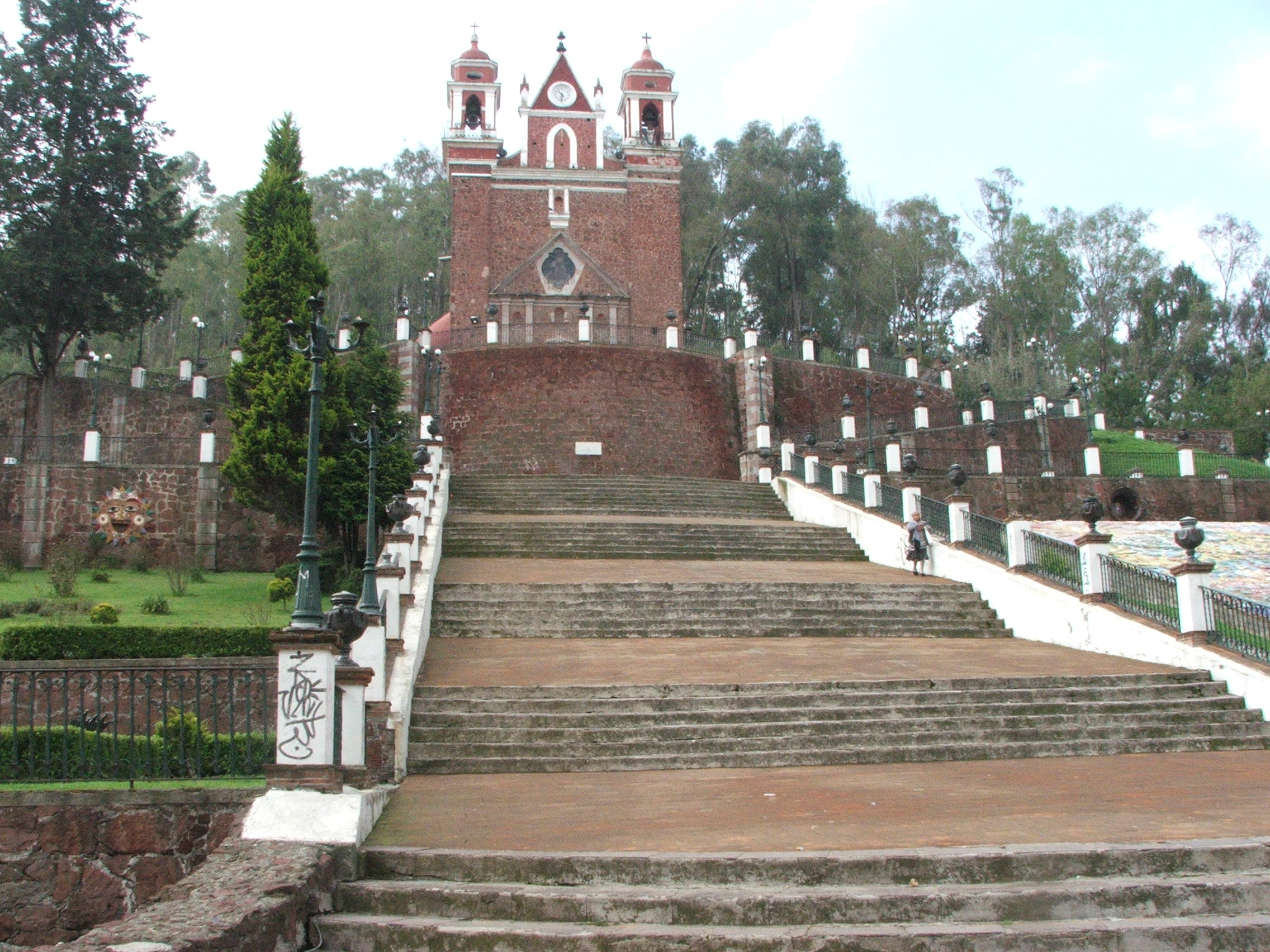 A church of Metepec, Mexico State